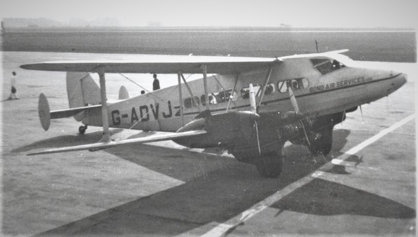 de Havilland DH.86 Express G-ADVJ of Bond Air Services at Liverpool (Speke) Airport on Grand National Day 1950